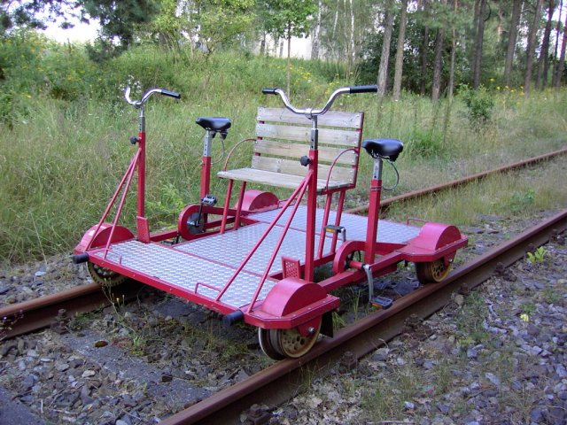 Railbike (draisine) on a line between Templin und Fürstenberg (Havel), Germany